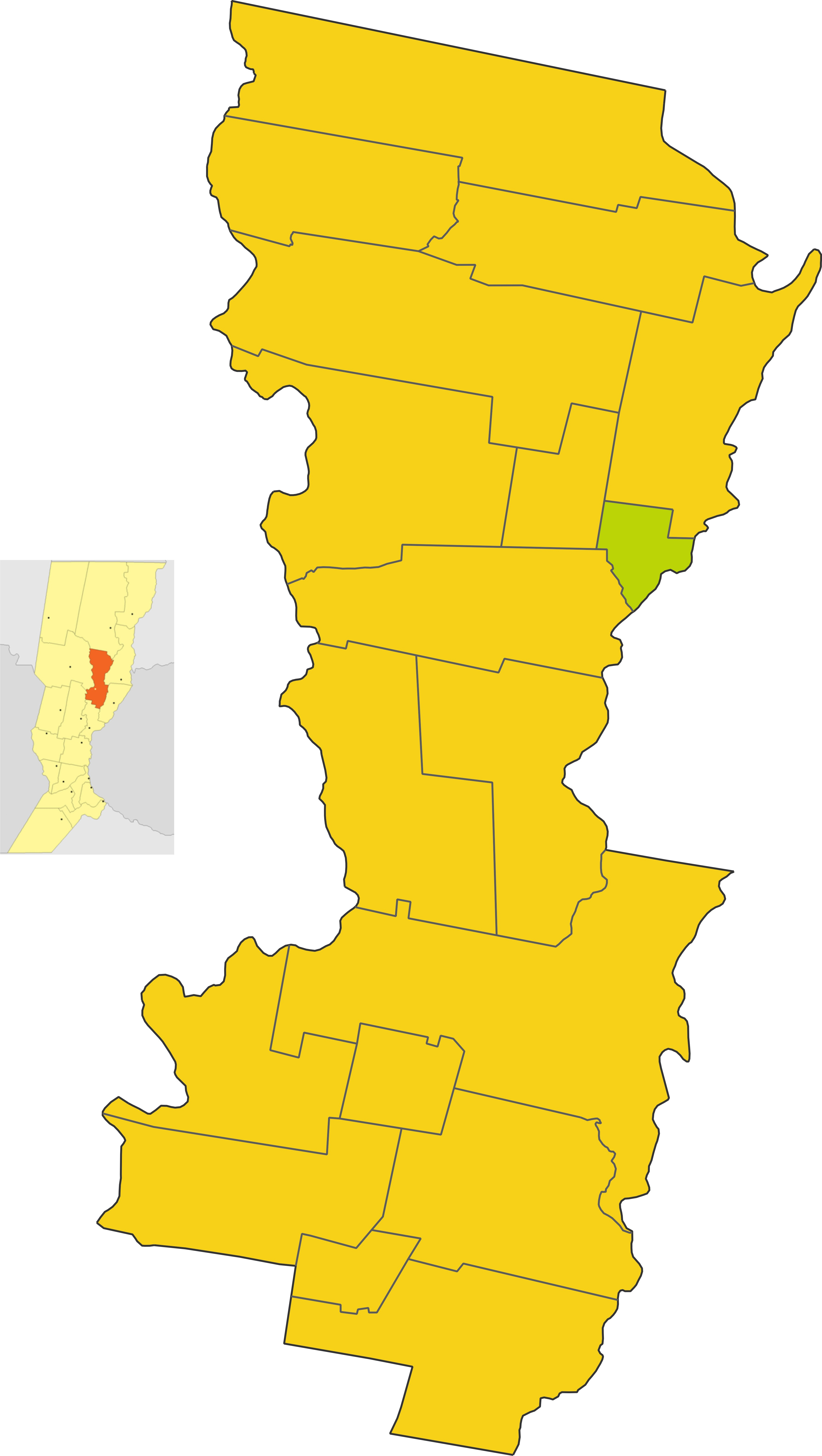 Map of the comuna de Colonia Dolores in San Jsuto department, Santa Fe province, Argentina